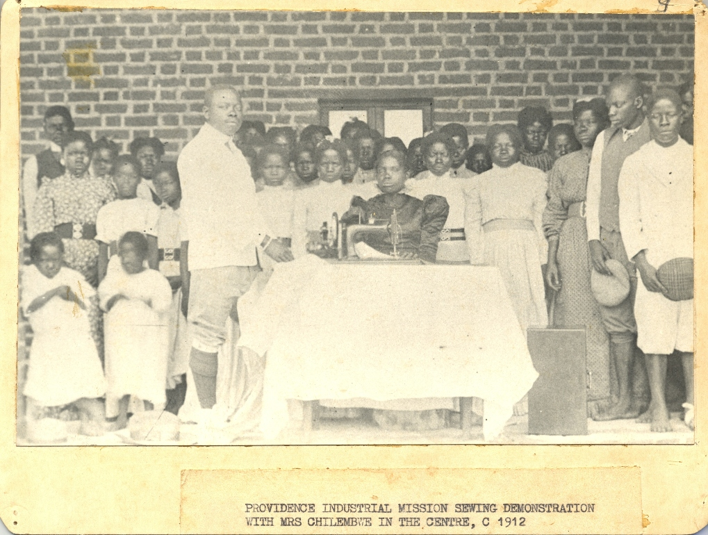 Sewing demonstration at the Providence Industrial Mission, established and run by Rev John Chilembwe